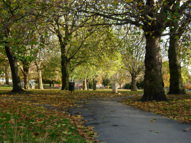 Vauxhall Park Vauxhall Park was laid out in 1889 on land purchased by Lambeth Vestry (forerunner of Lambeth Borough Council) through the efforts of Octavia Hill (social reformer and a co-founder of the National Trust). It was opened by the Prince of Wales in 1890.